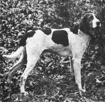 Old Limber, the foxhound of Tennessee Governor Alfred A. Taylor (1848–1931)